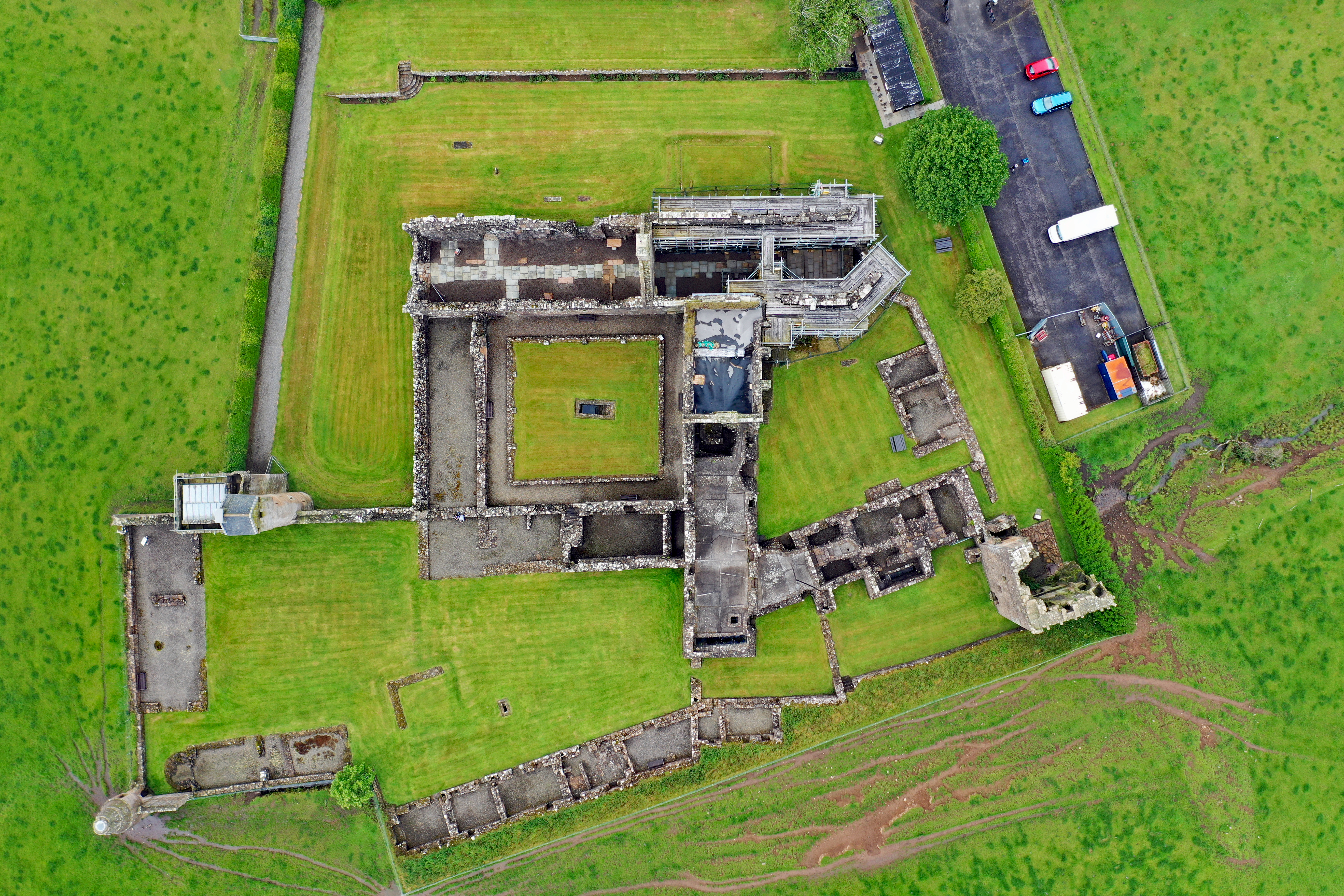 Crossraguel Abbey (Airshire, Scotland, UK)